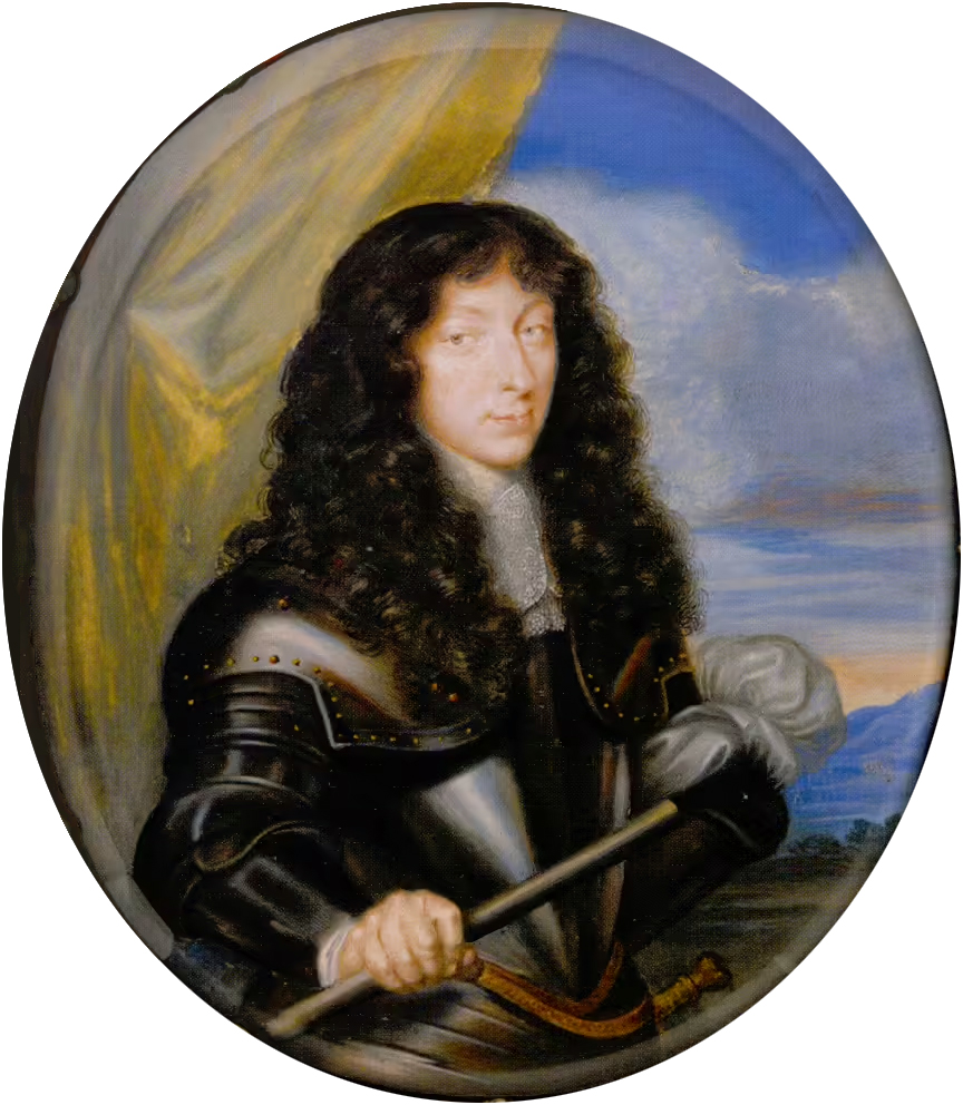 Armand de Bourbon, Prince of Conti